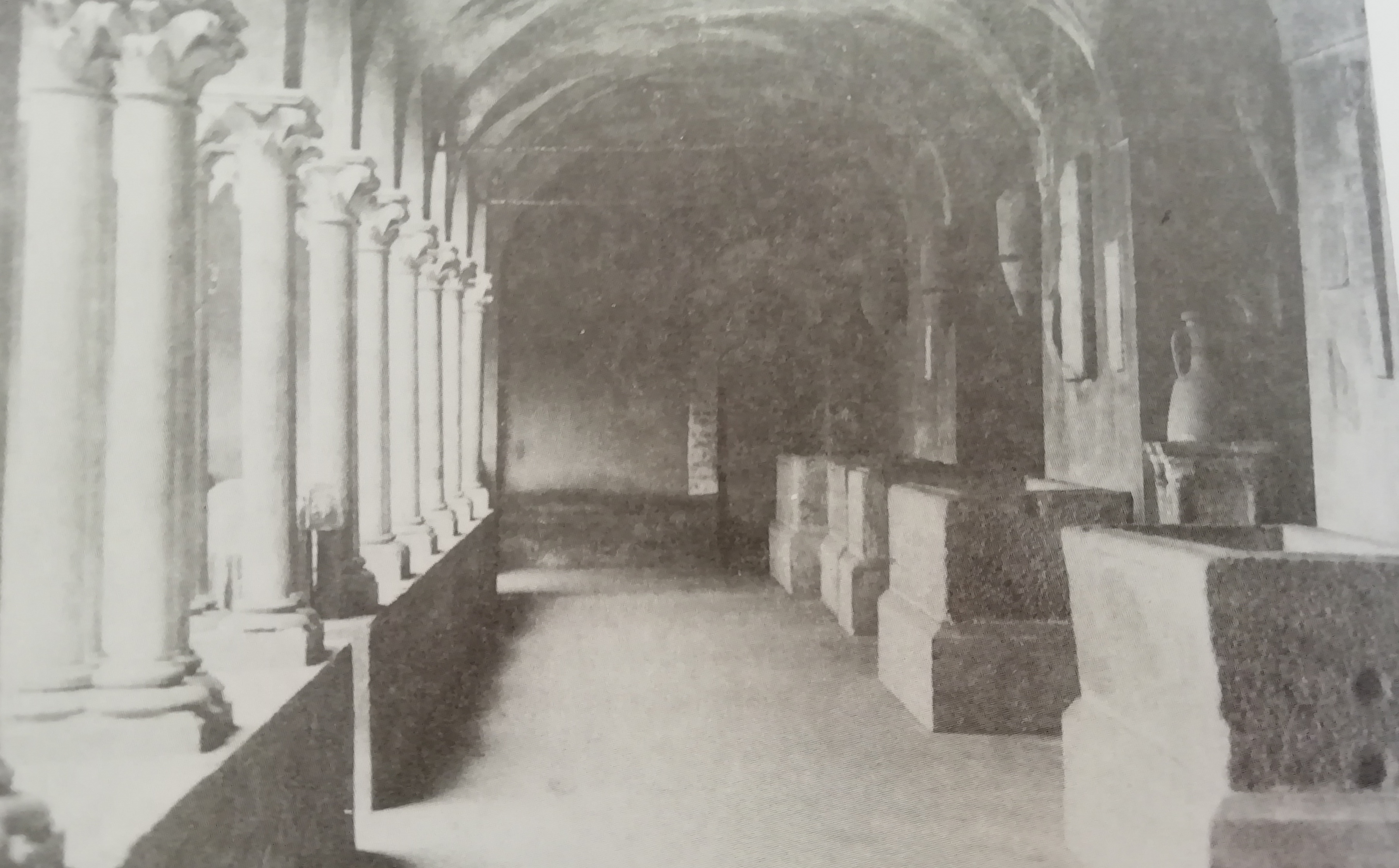 foto lapidario bruzza 1900 lato 2 vc